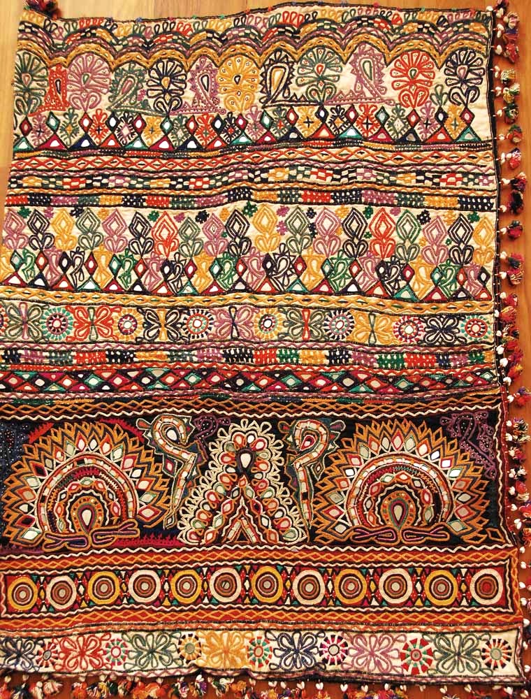 Antique Kutch Embroidery on a traditional dowry bag. [courtesy WOVENSOULS collection]